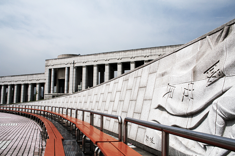 @War Memorial of Korea